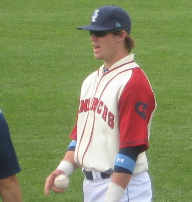 Wil Myers prior to a game in Wilmington DE 2010 08 14